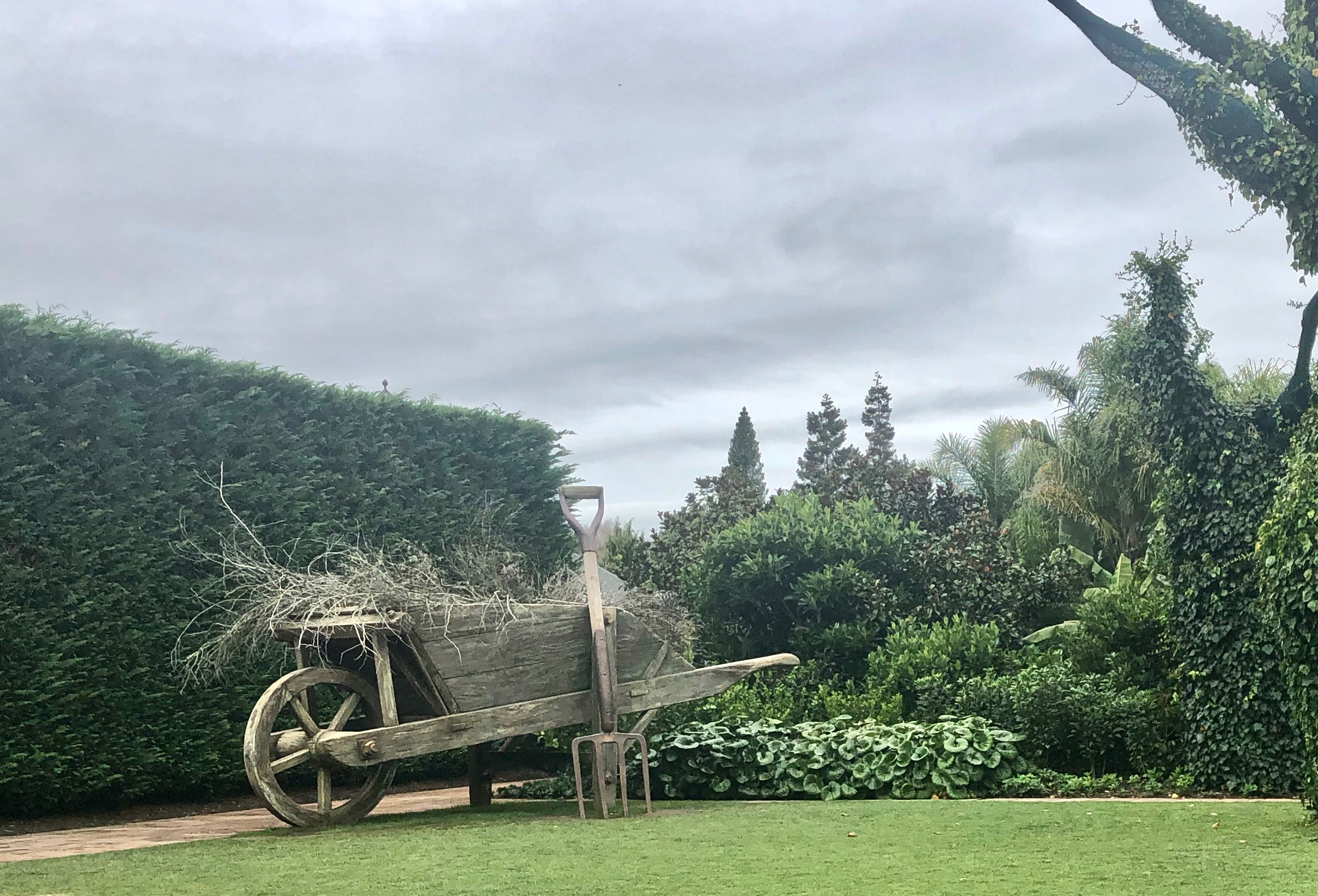 Giant wheelbarrow and 'trees' which wave their branches.